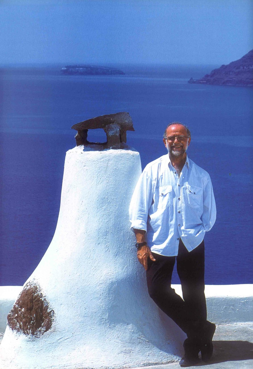 A portrait photograph of Yannis Tseklenis.